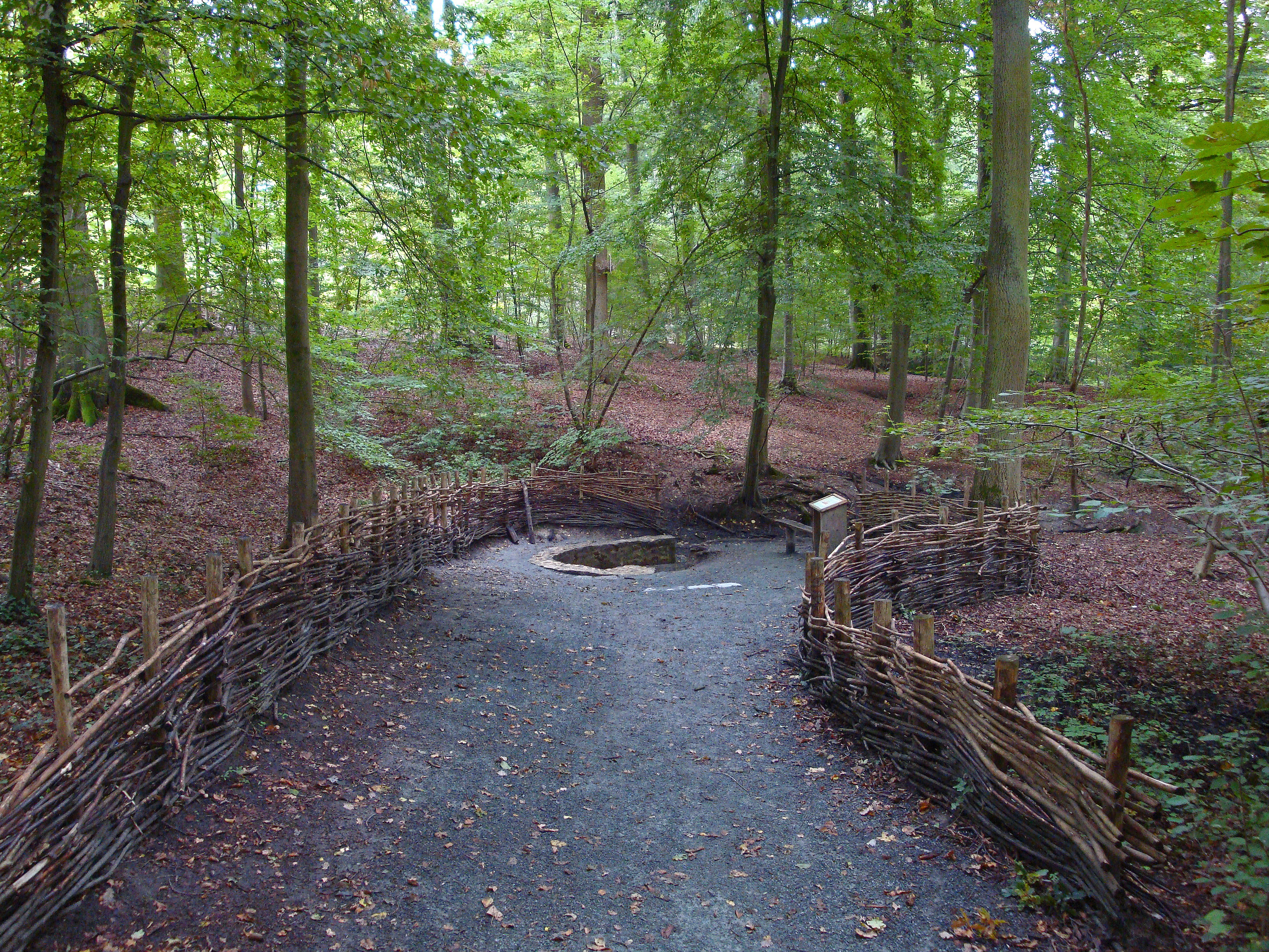 Drinking water spring calle "Minnebron" in Oud-Heverlee, Belgium